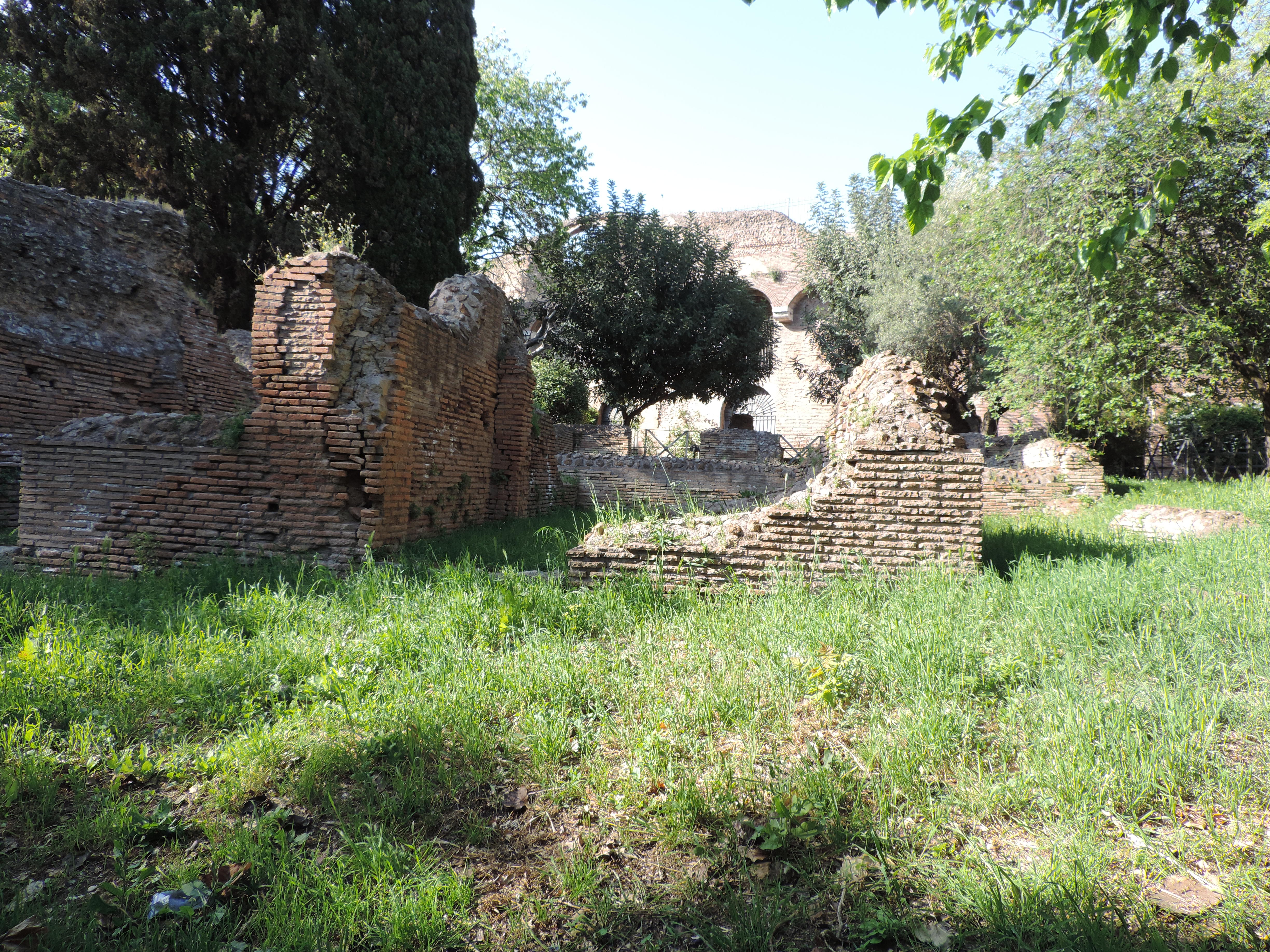 Ruins of the Dacian gladiator school (Ludus Dacicus)